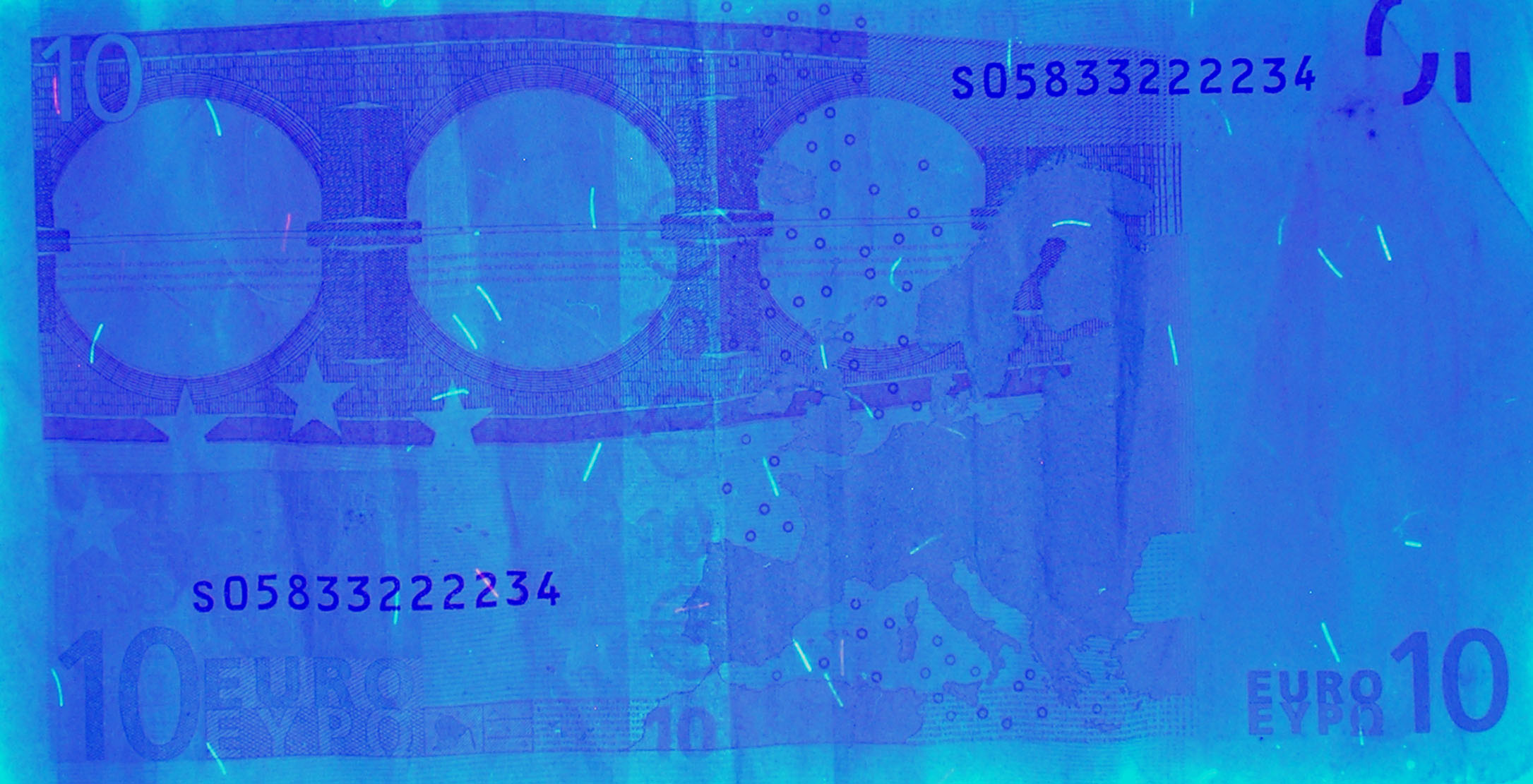 UV Image of 10 Euro banknote